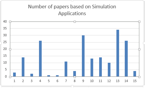 Number of paper for each simulation application reviewed by Jahangirian et al. (2010)